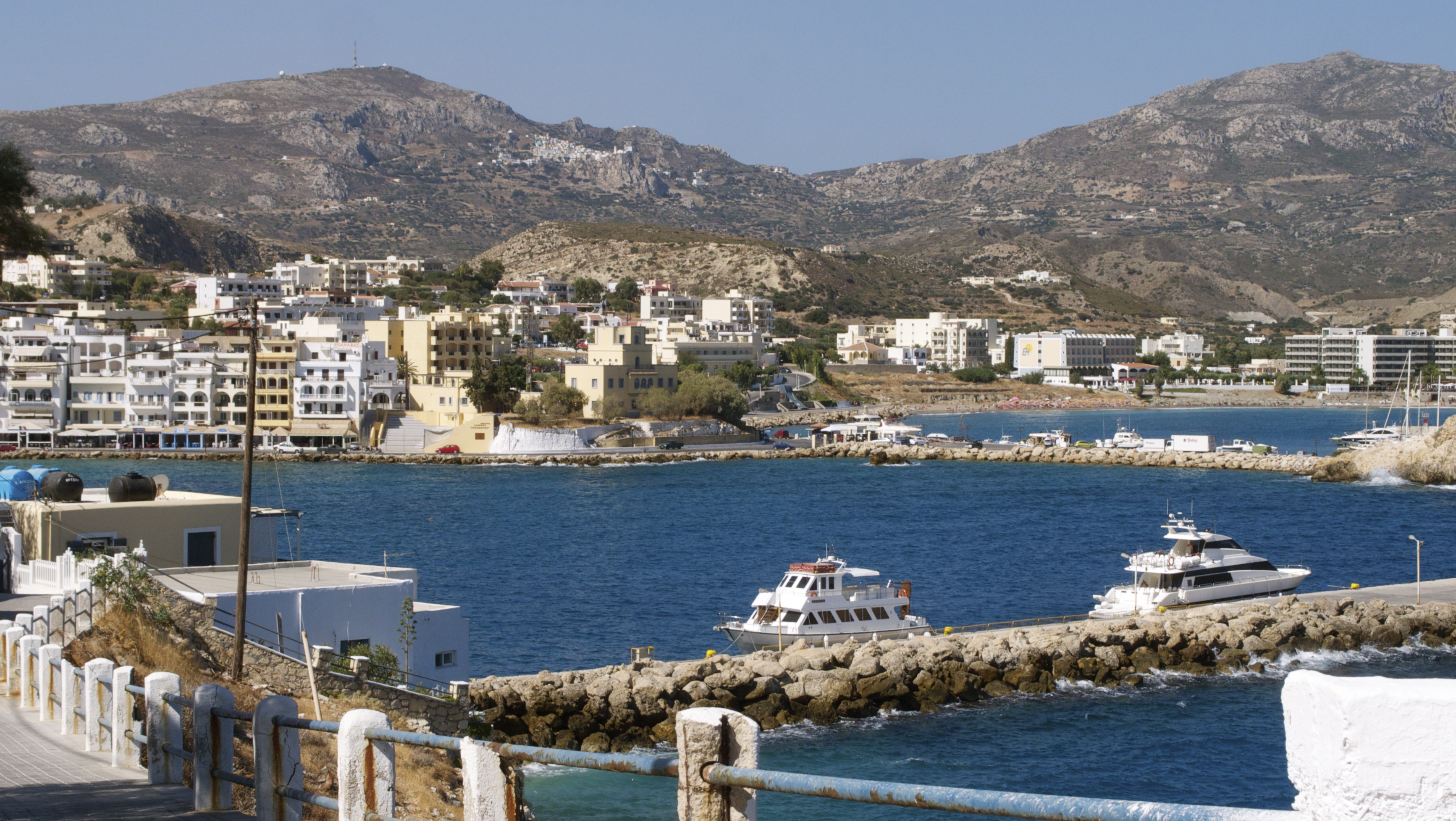 Άποψη του λιμανιού της Καρπάθου